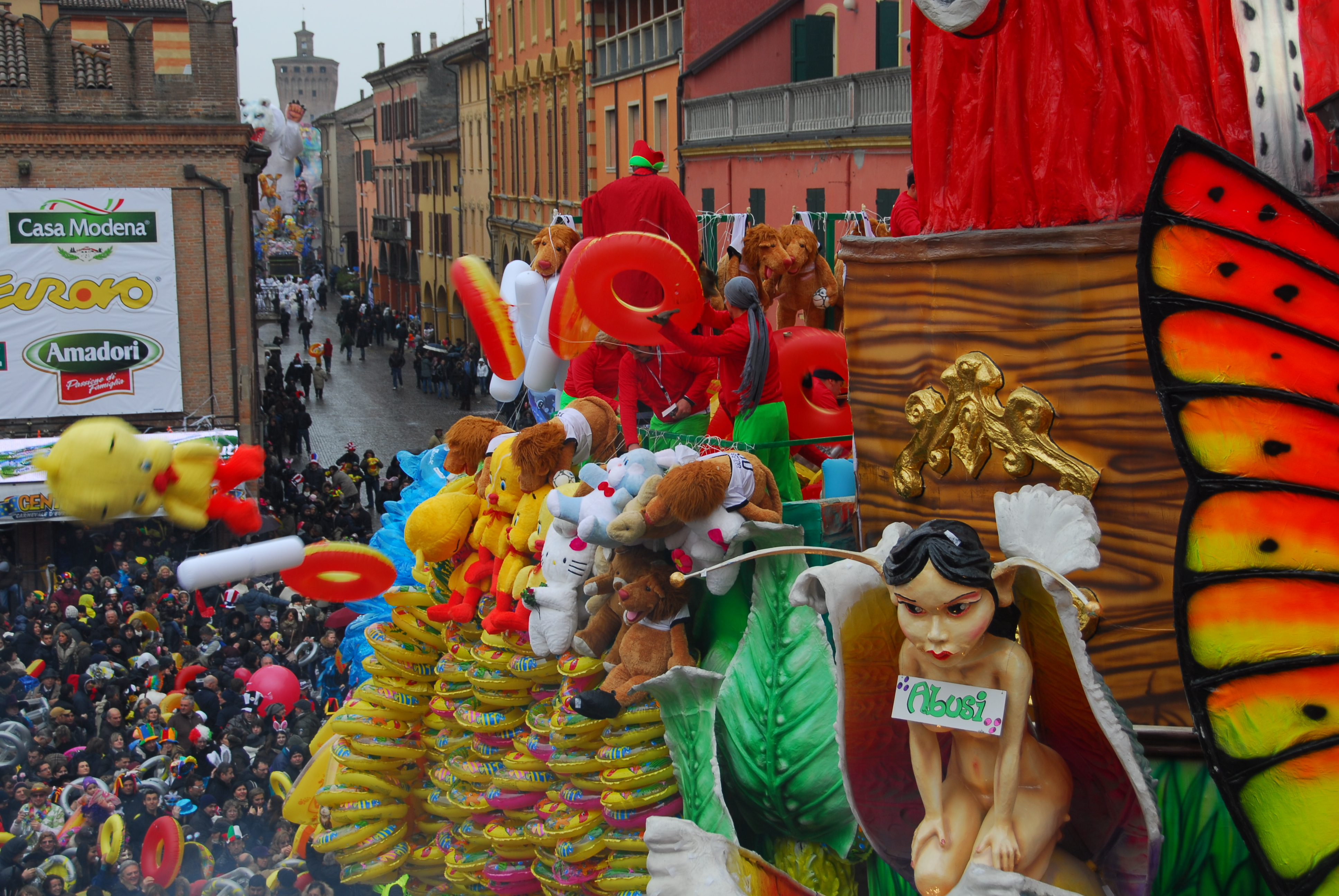 Traditional Cento's carnival peluches and toys throwing.